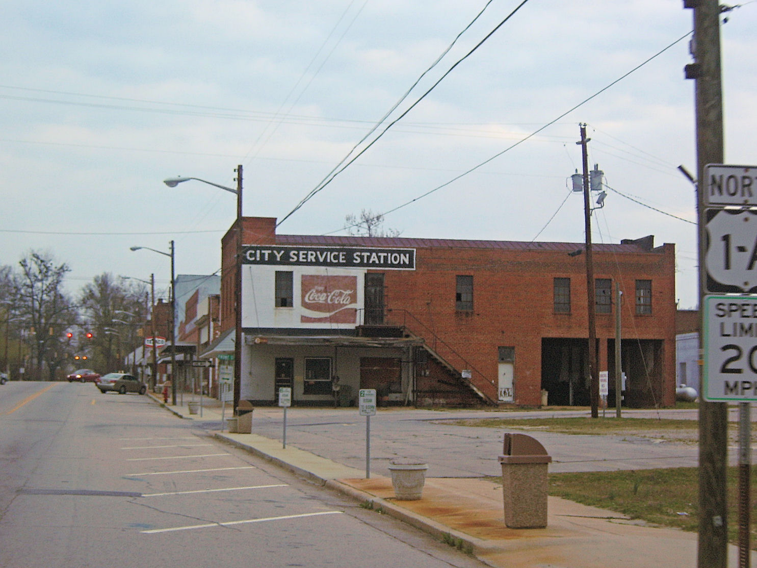 Downtown Franklinton, North Carolina, showing a view along S Main Street